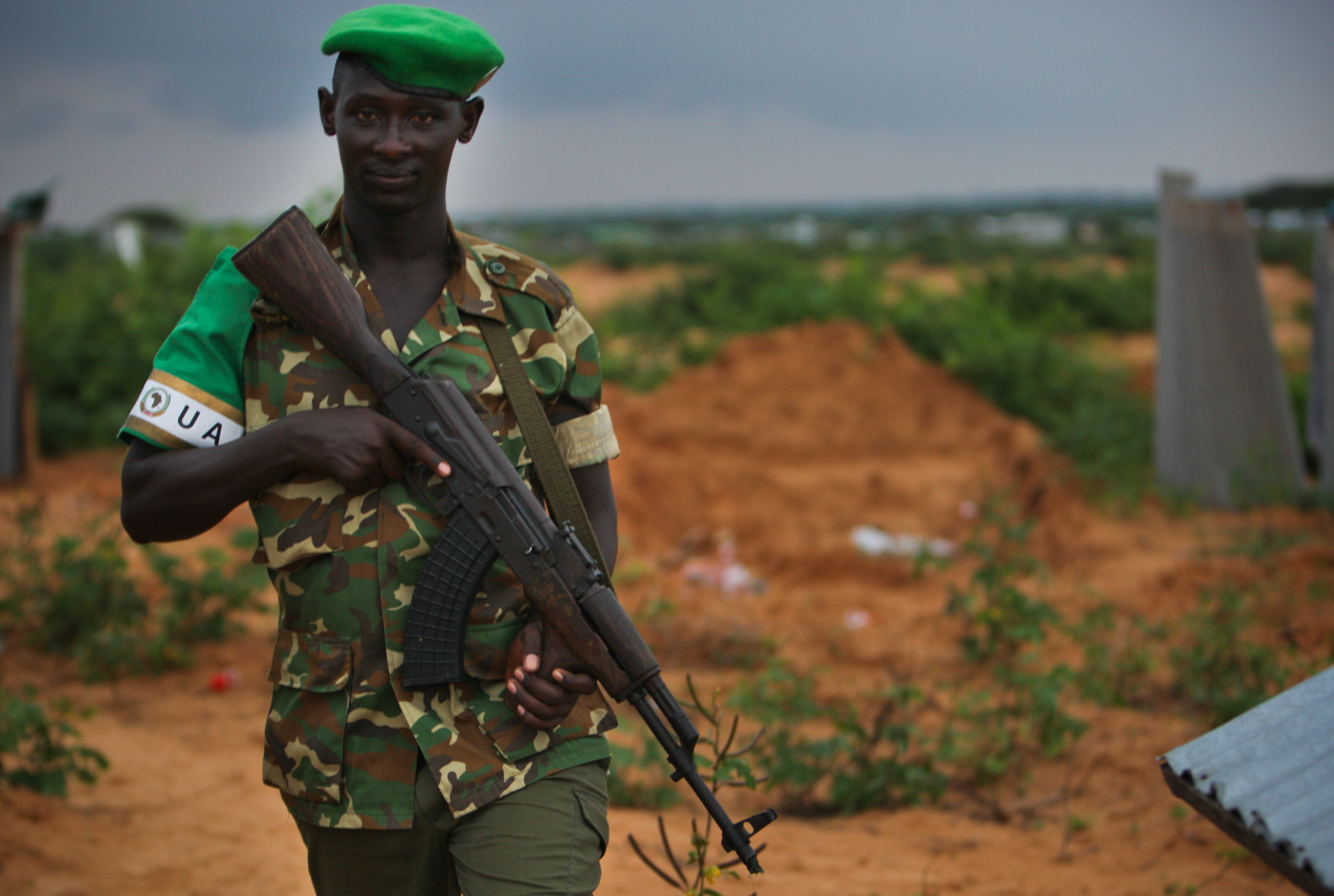 A soldier from Burundi serving with the African Union Mission in Somalia (AMISOM) is seen near frontline positions in territory recently captured from insurgents in Deynile District along the furthest most northern fringes of the capital Mogadishu. AU-UN IST PHOTO / STUART PRICE.